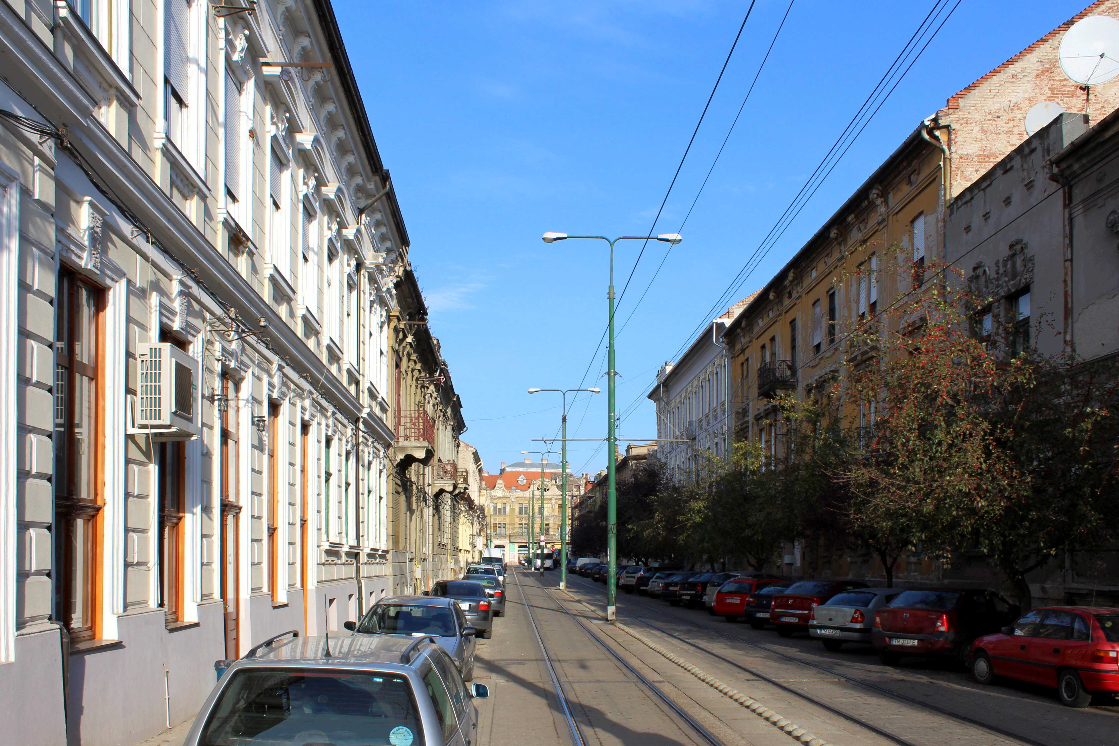 Gheorghe Doja street, Timișoara, Romania, built 1900.